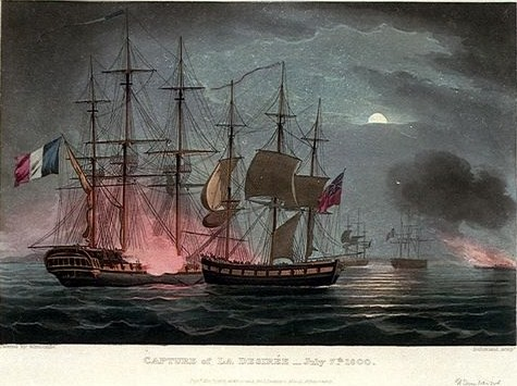 Engraving after a painting by Thomas Whitcombe showing HMs Dart capturing French frigate Désirée in July 1800.